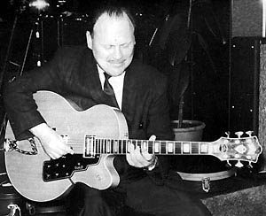 Depicted person: George Barnes – American musician